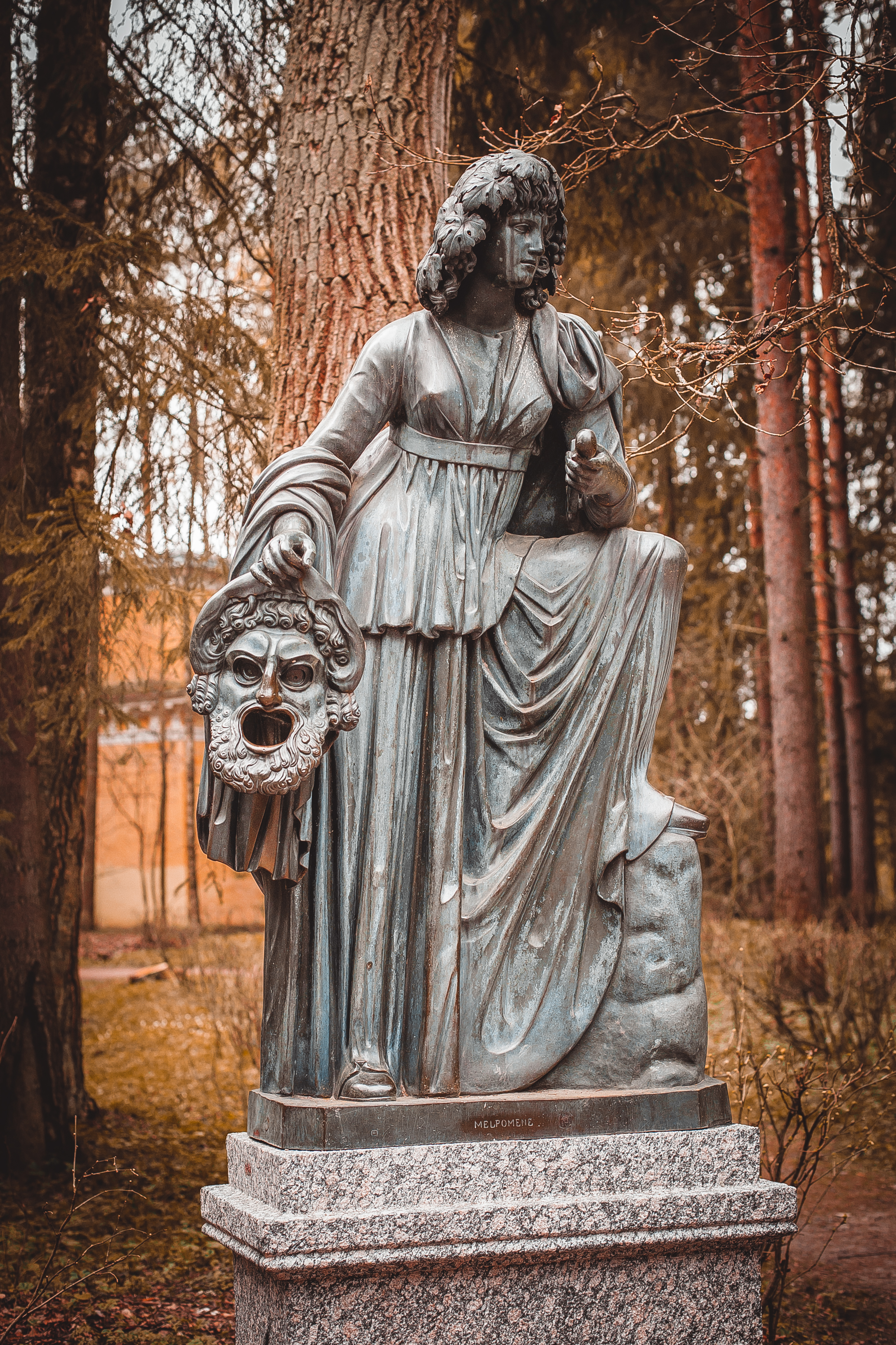 Melpomene (muse of tragedy) The Pavlovsk Park Twelve Paths at Old Silvia Apollo and the muses